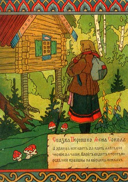 Postcard. Russian fairy tale